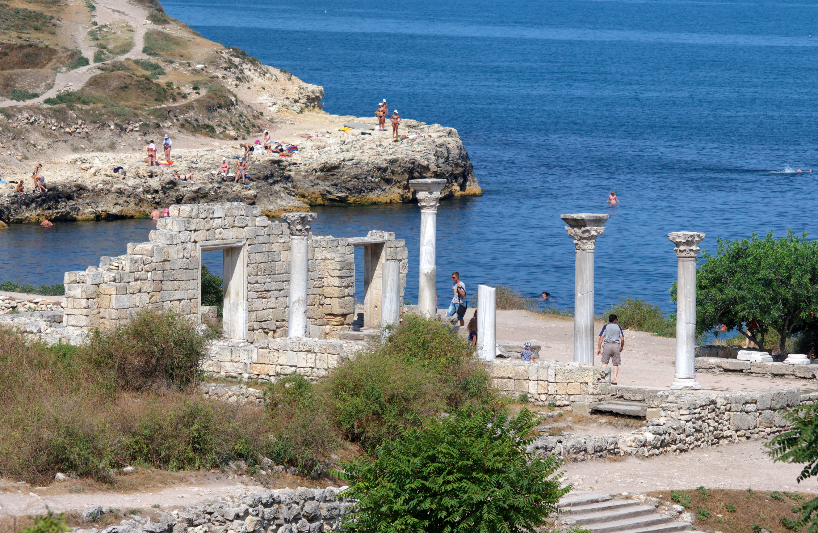 Sevastopol. Chersonesus. Basilica of 1935